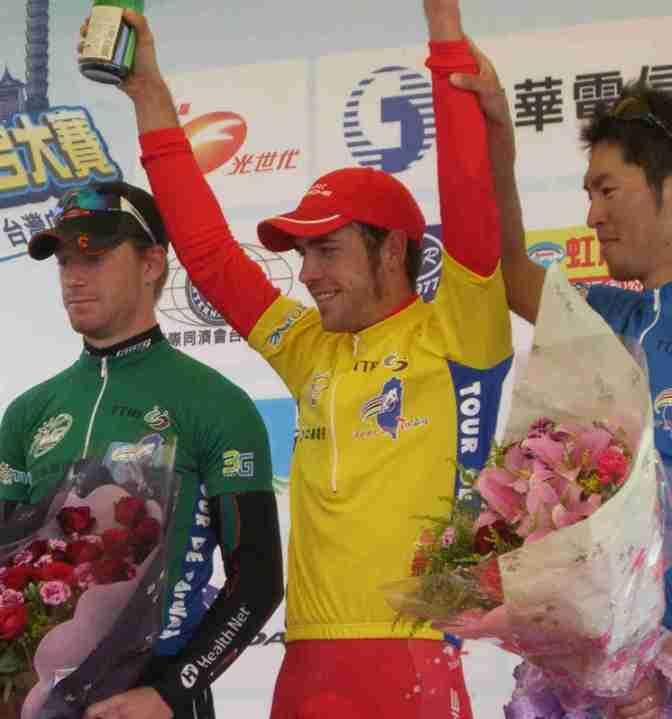 Dean Windsor receives Leads Yellow Jersey 2007 Tour De Taiwan – Shawn Milne (Health Net) Green – Satoshi Hirose (AISAN) blue